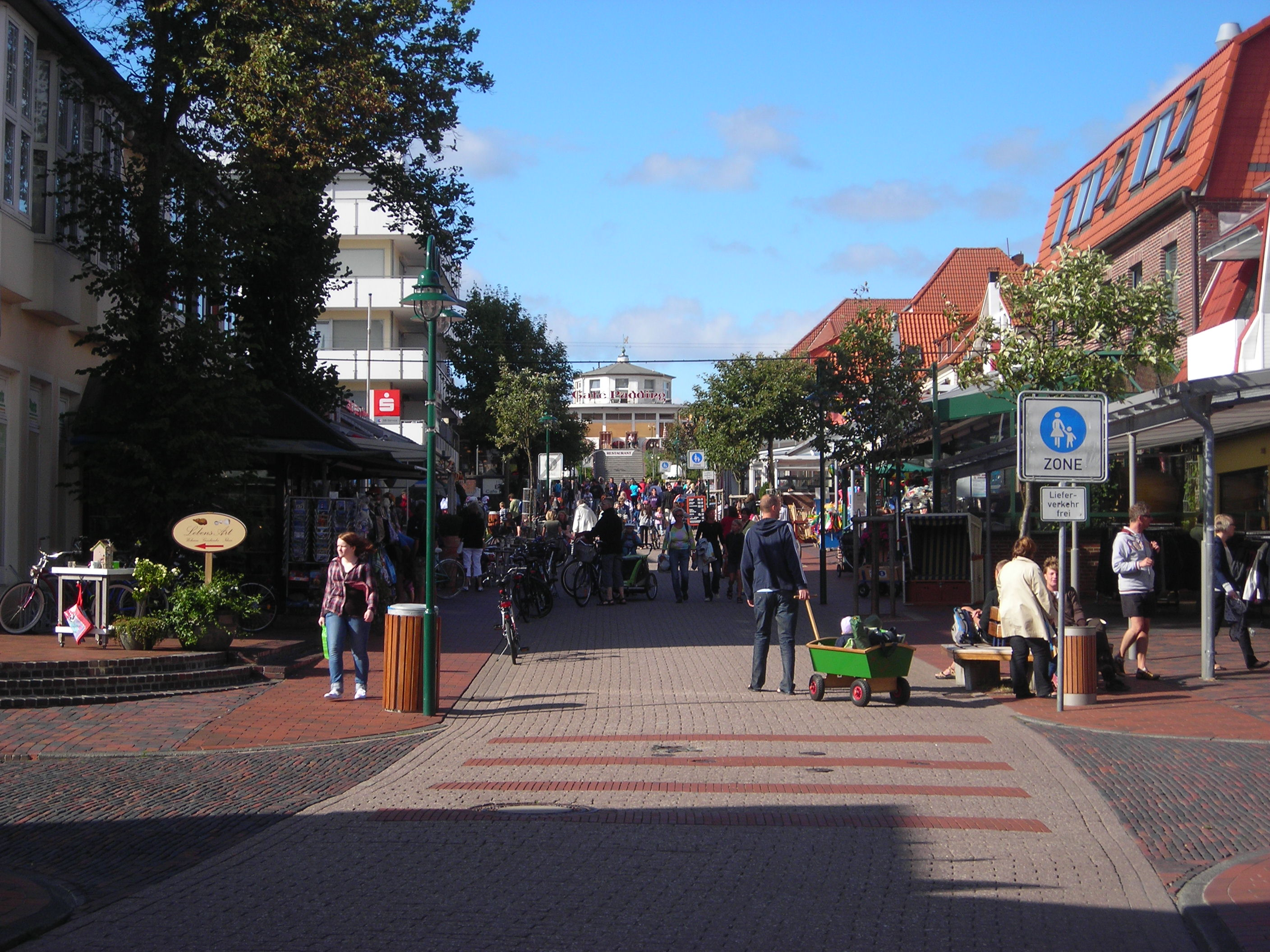 Zedeliusstrasse, the main street of Wangerooge